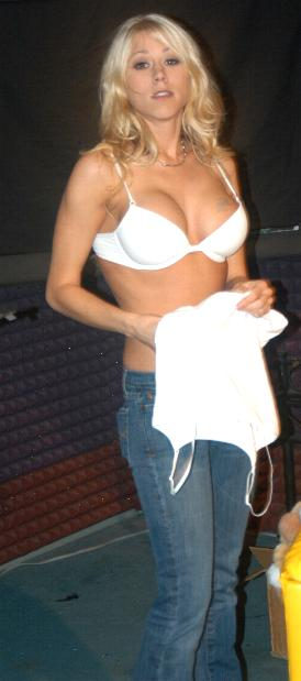 Katie Morgan at KSEXradio Listener Choice Awards 2005.